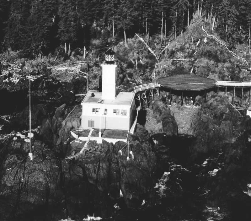 Public Domain statement here; Cape Decision is a lighthouse located on Kuiu Island adjacent to Sumner Strait in Southeast Alaska.